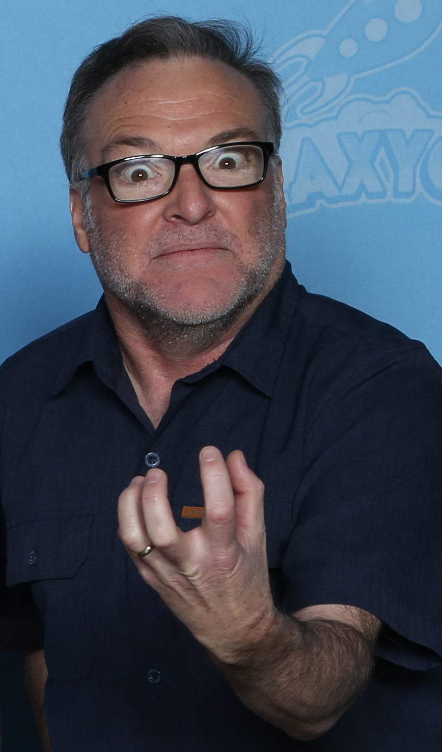 Richard Steven Horvitz at GalaxyCon Richmond in 2020